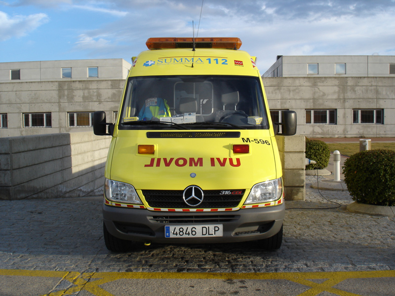 Spanish Mercedes-Benz Sprinter ambulance with reverse wording of "UVI MOVIL" ("mobile intensive care unit"): "LIVOM IVU".